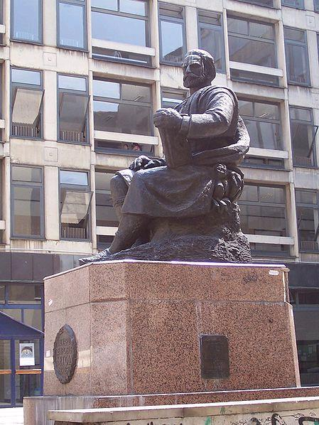 Belgrad, Petar II Petrovic-Njegos